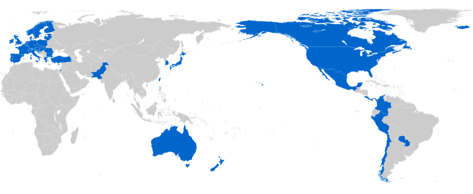 Parties to Trade in Services Agreement (TiSA)